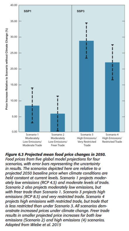 Food prices based on trade and emissions.[1]